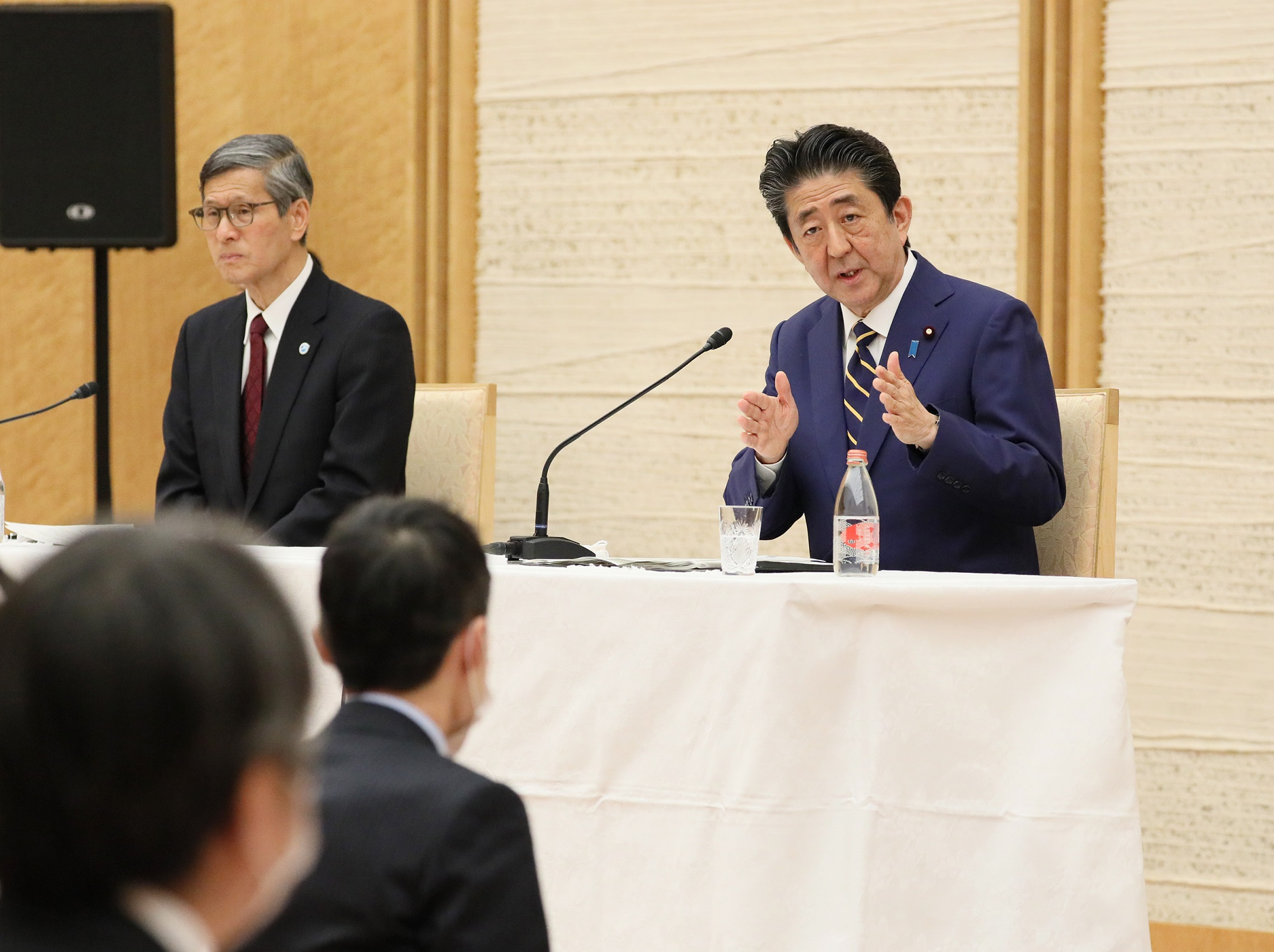 Shinzō Abe, Prime Minister, and Shigeru Omi, Chairman of the Advisory Committee on the Basic Action Policy, Advisory Council on Countermeasures against Novel Influenza and Other Diseases, Ministerial Meeting on Measures Against Avian Influenza, attended a press conference at the Prime Minister's Official Residence in Chiyoda Ward, Tōkyō Metropolis on April 7, 2020.